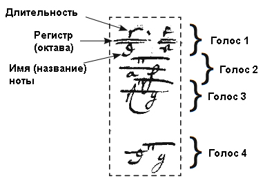 Didactic example of the new German tablature